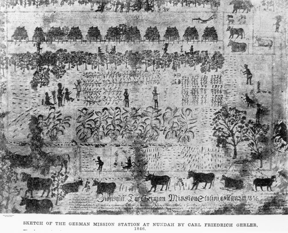 Sketch of the German Mission Station at Nundah, Brisbane, known as Zion's Hill. Indigenous Australians, missionaries, livestock and agriculture can be seen.